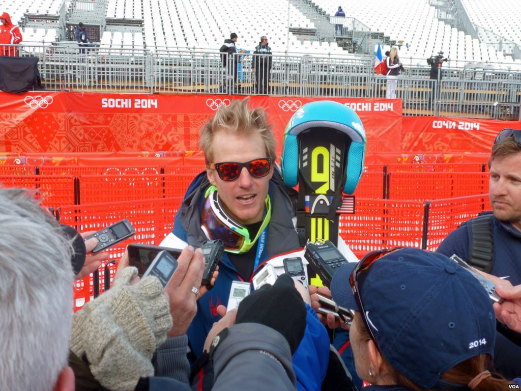 Giant Slalom gold medalist Ted Ligety of the US, Feb 19, 2014 (VOA - P. Brewer)